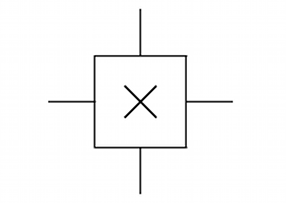 Commonly used symbol for hall effect device Other information The symbol is part of a circuit used in pre-patent work so is not yet available on my site